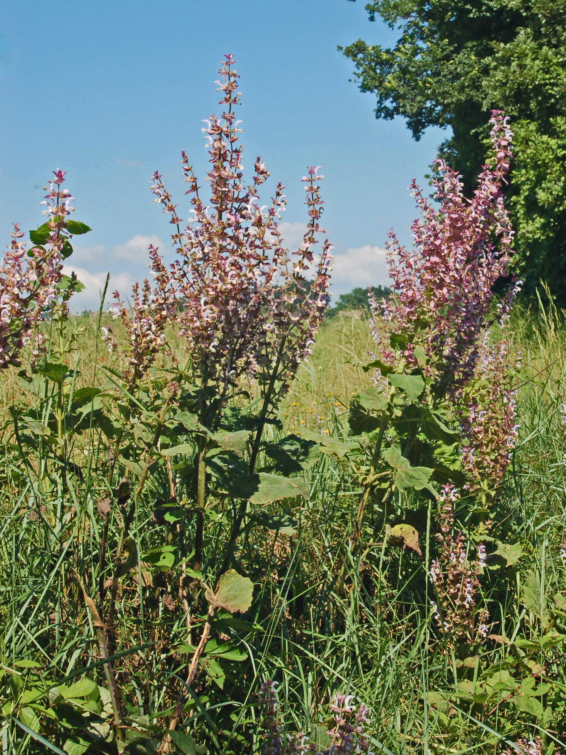 Salvia sclarea - S. Agata fossili, Alessandria, Italy